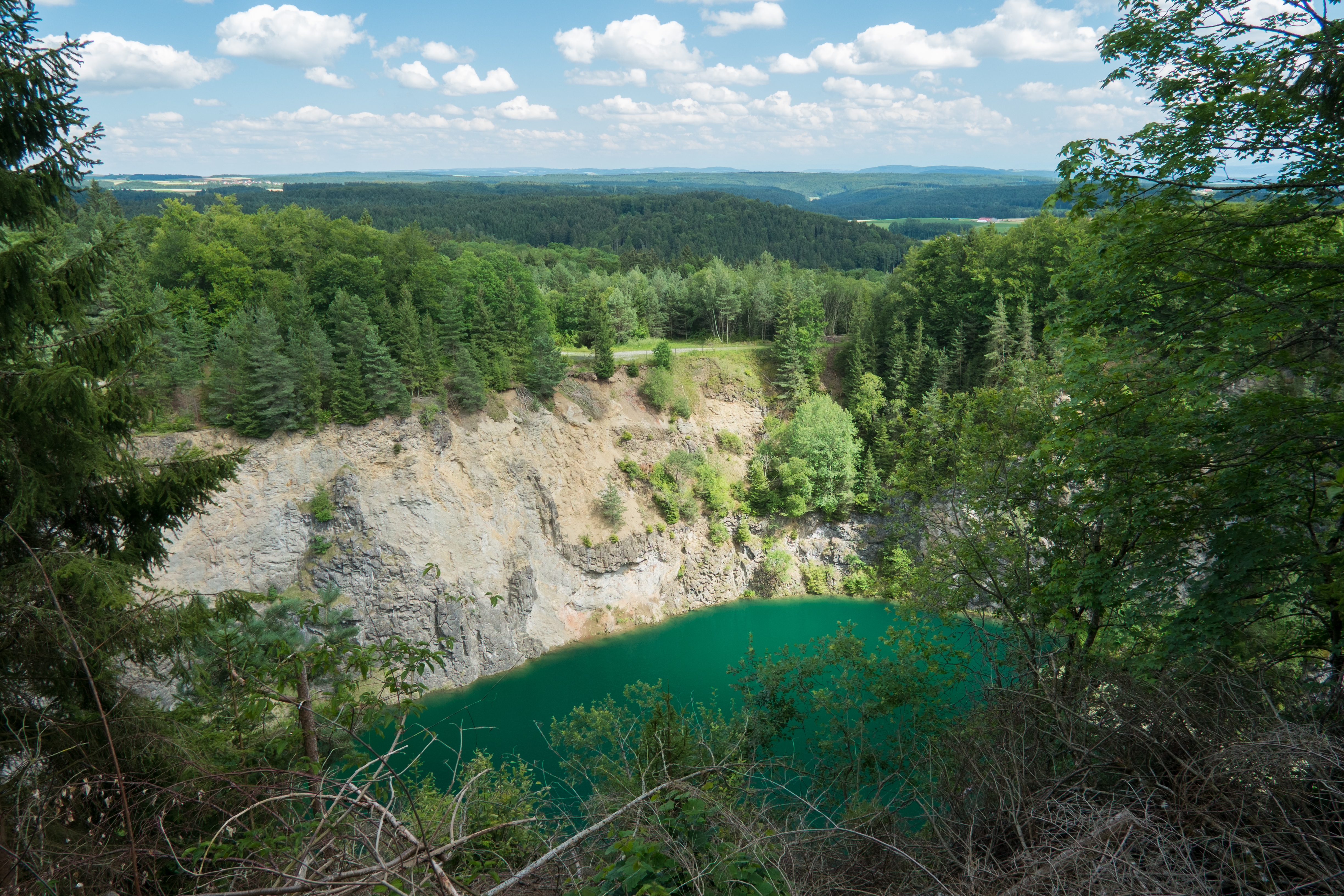 Abandoned quarry Höwenegg, county Tuttlingen, Baden Wurttemberg, Germany